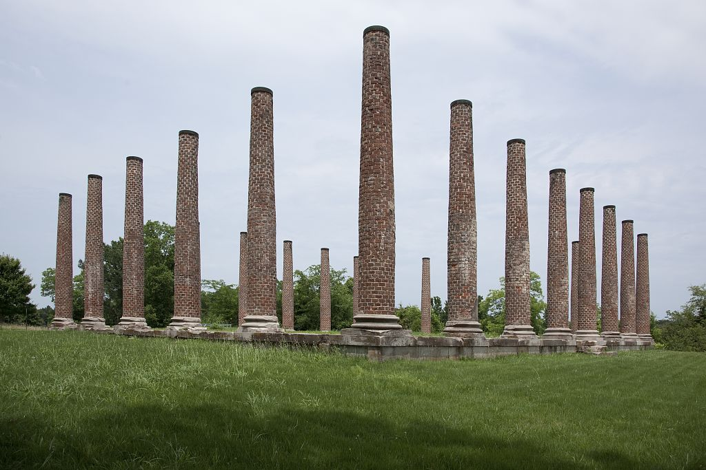 Forks of Cypress, also known as Forks of the Cypress, a Greek Revival plantation house near Florence in Lauderdale County, Alabama